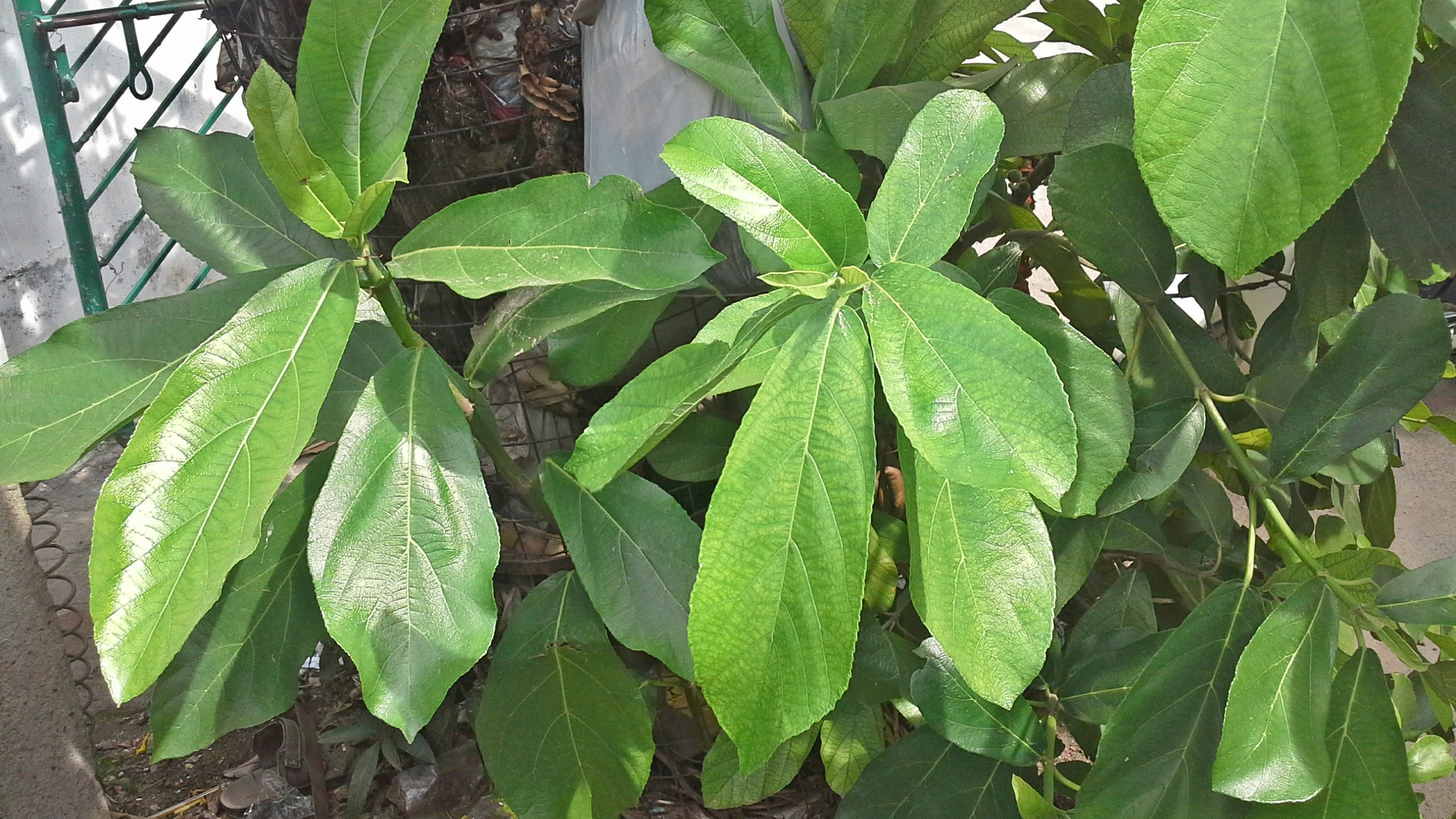 Hairy Fig tree (Ficus hispida) at Suryabagh in Visakhapatnam